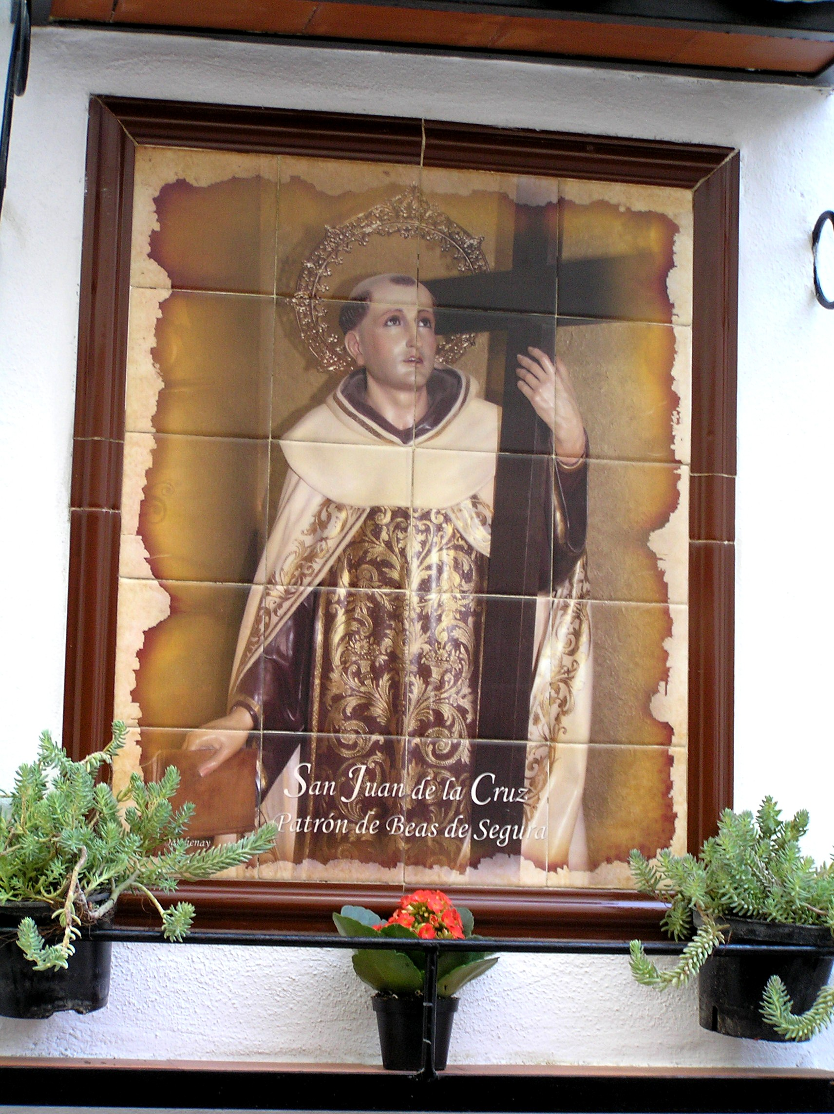 S. Juan de la Cruz en el Repullete